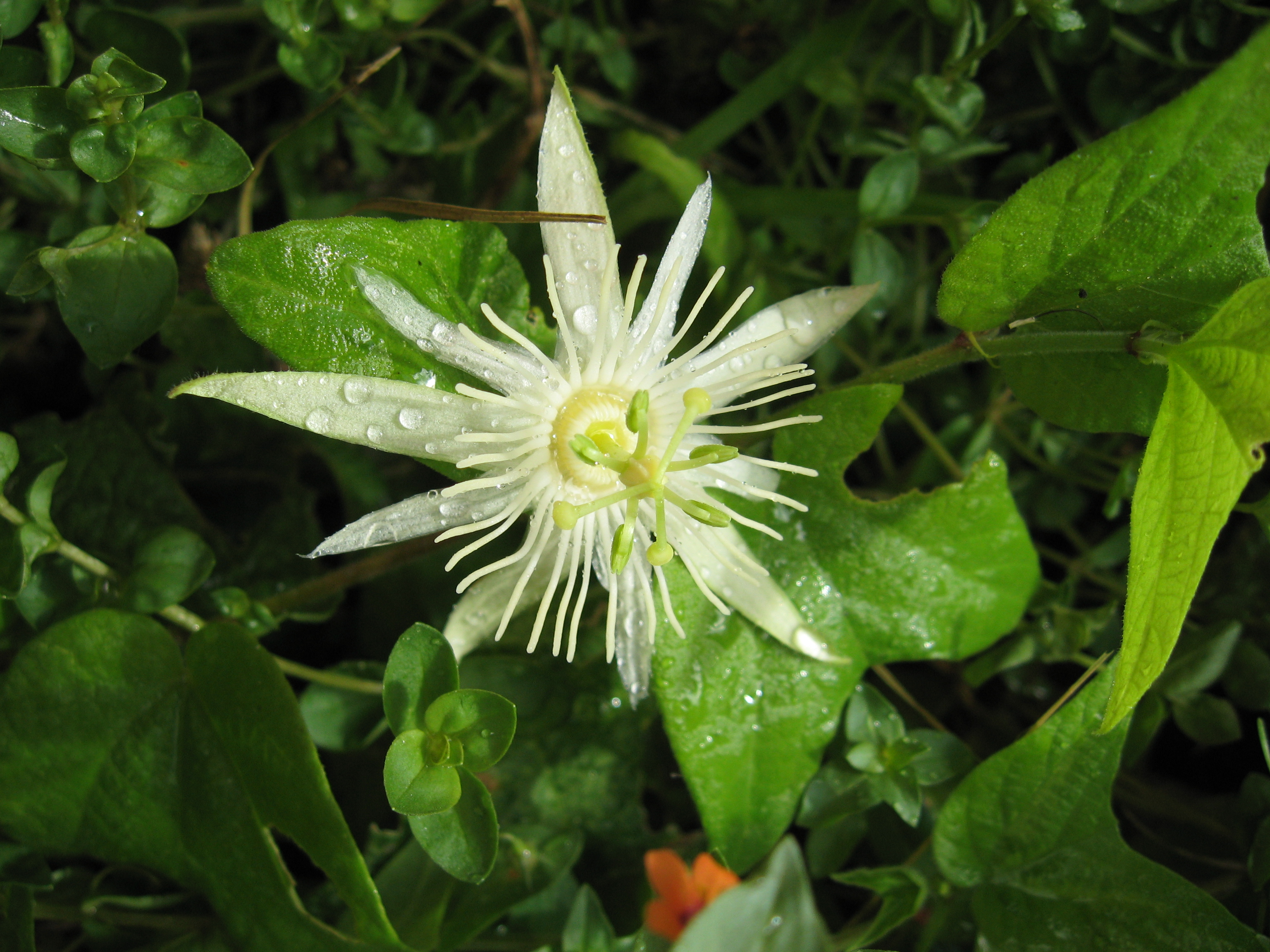 Passiflora capsularis passion flower, photographed in Porto Alegre, Southern Brazil.